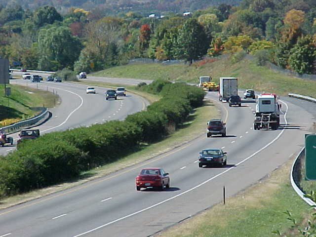 Interstate 81 as seen from the James Madison University bridge in Harrisonburg, Virginia.